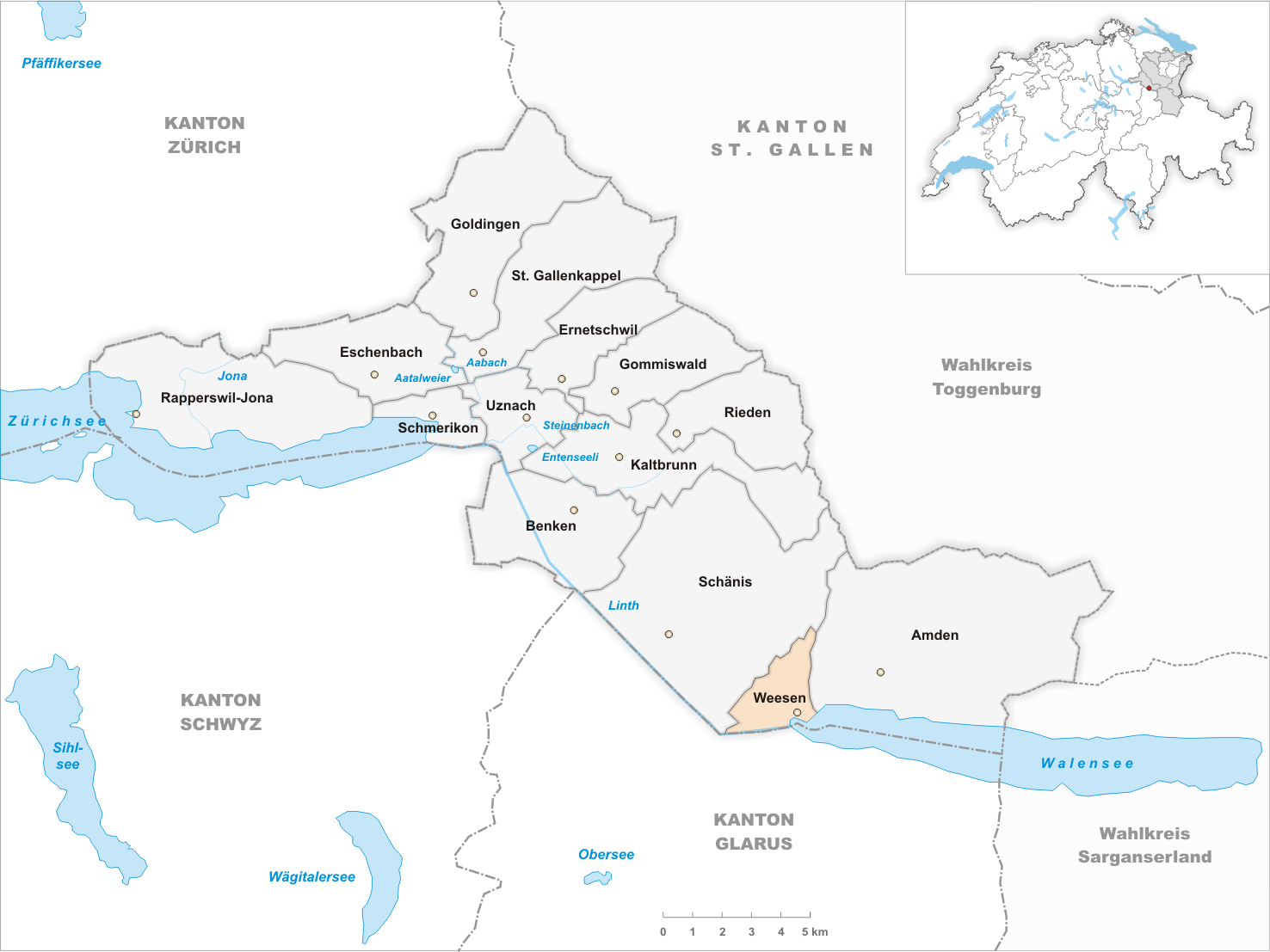 Municipality Weesen